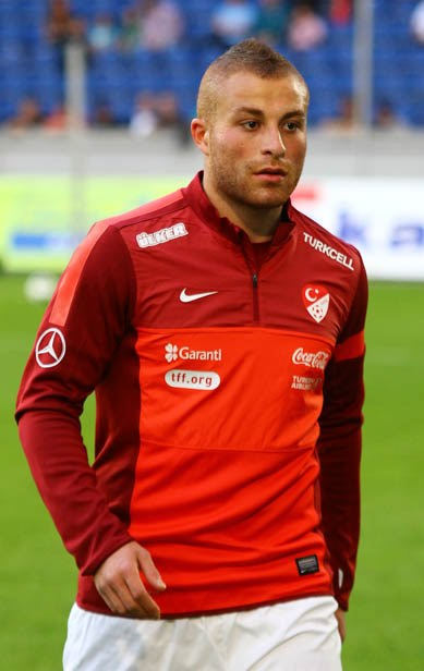 Turkish international football player Gökhan Töre